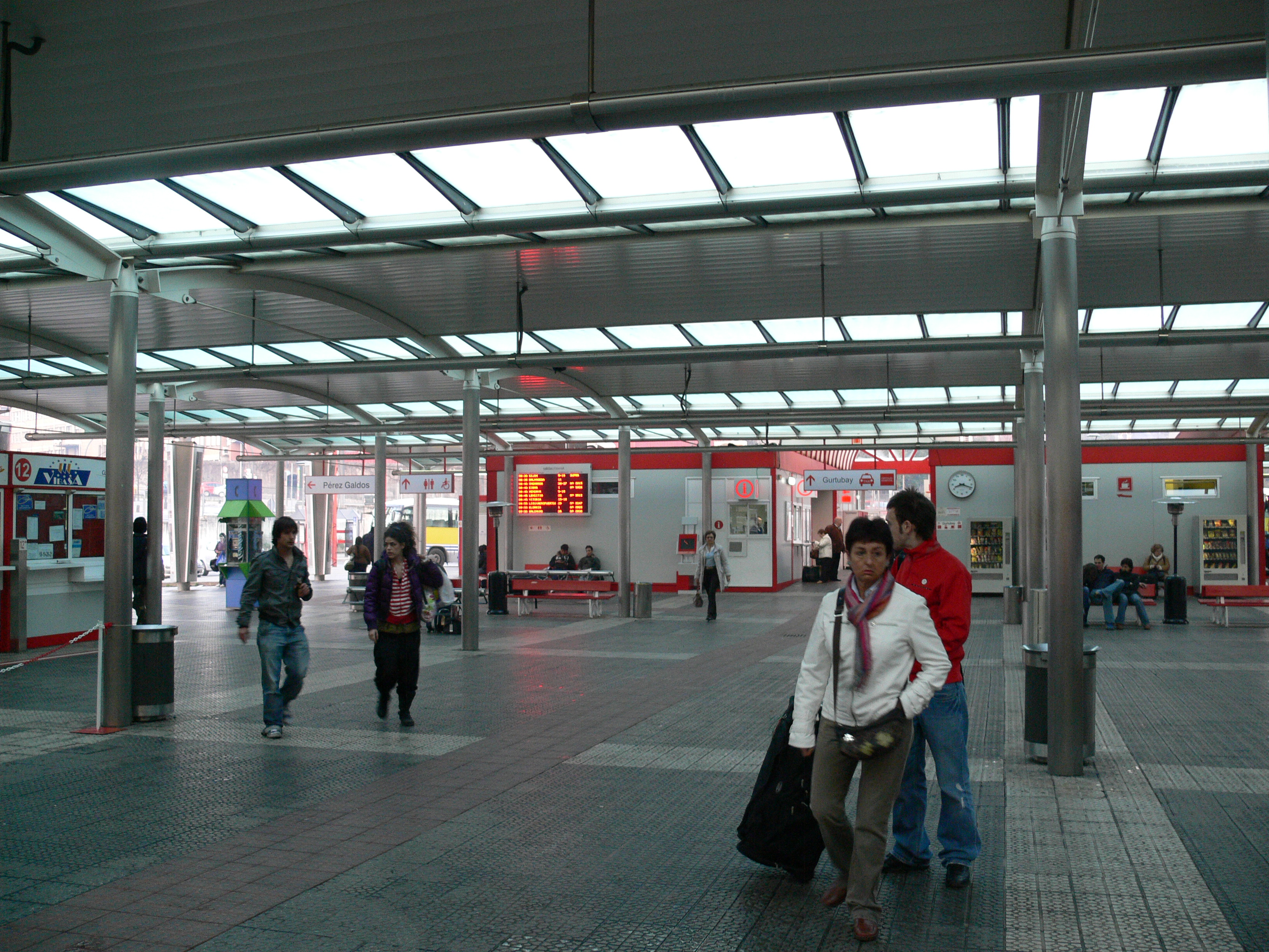 Termibús bus terminal next to San Mamés metro station, Bilbao.